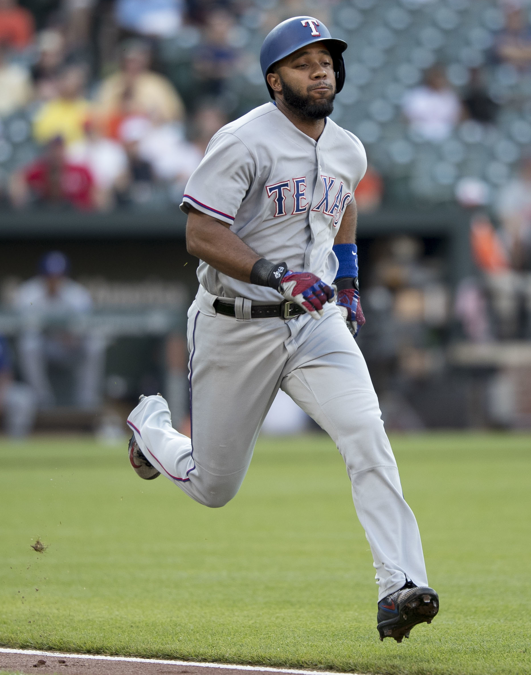 Rangers at Orioles 7/18/17